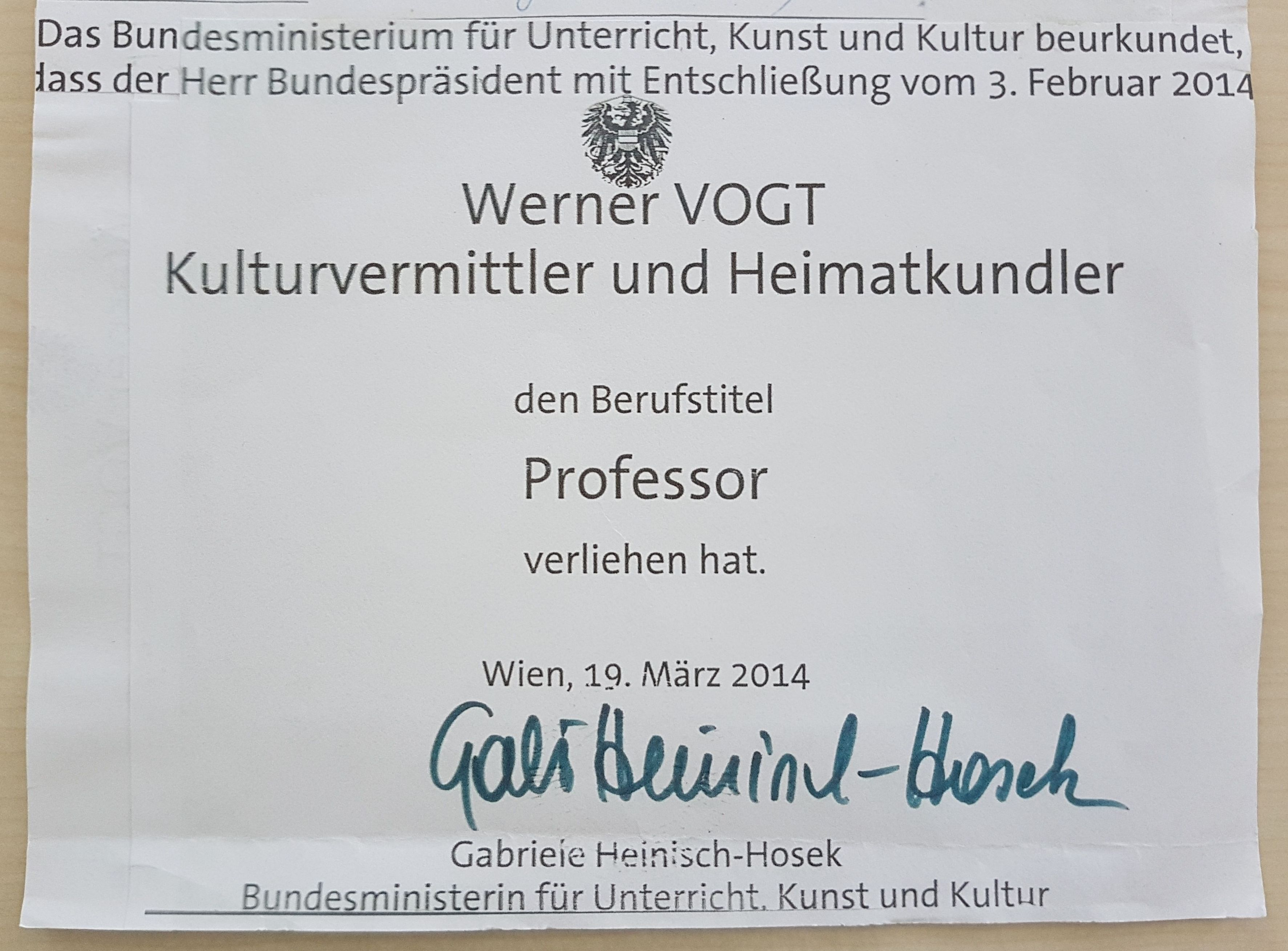 Werner Vogt (* 1931; † 2020), living in Hard, Vorarlberg, Austria. Award of the title "Professor" to Werner Vogt.